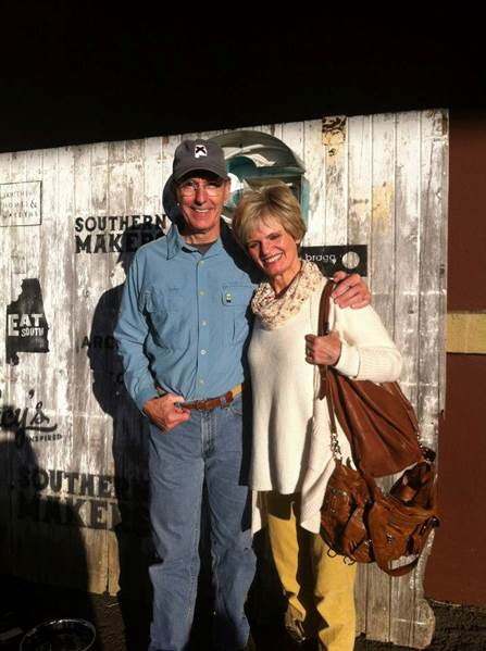 YJB & Sally